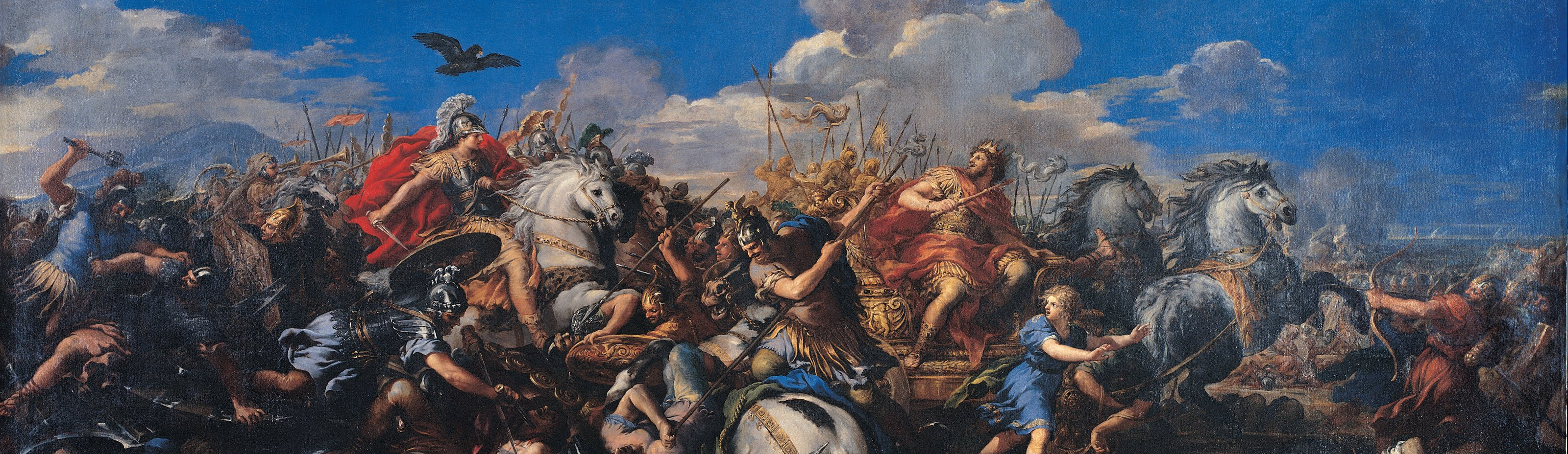 Pietro da Cortona - Battle of Alexander versus Darius (panorama)